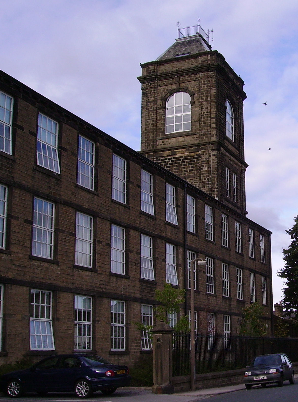 view of Carleton in Craven in North Yorkshire, United Kingdom